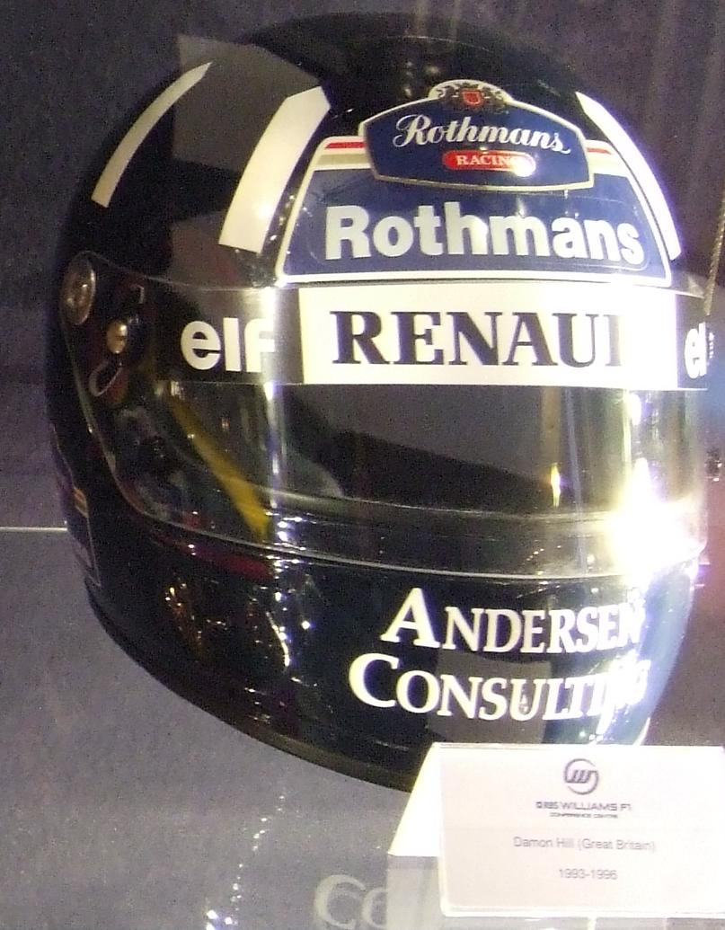 Damon Hill's helmet as a Williams driver.